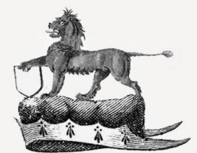 Blazon: On a chapeau gu., furred erm., a lion passant, tail extended gu., armed and langued az., supporting with his dexter forepaw a shield emblazoned with the arms of Kinloss